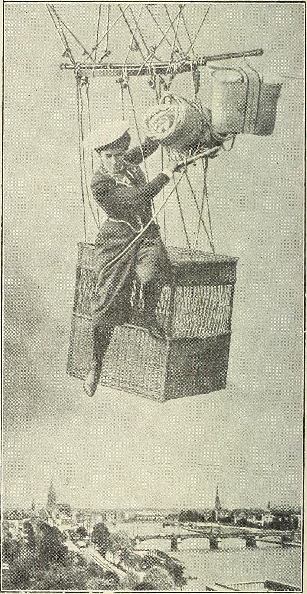 FlG. 79.—Fraulein Kathe Paulus preparingto descend in her parachute. FiG. 80.—Fraulein Kathe Paulus withher double parachute. its diameter of 40 ft., with an opening 6 ins. across at the topweight was 66 lbs. The latest novelty is a double parachute, invented by theballoonist Lattemann, and used on her many descents byFraulein Kathe Paulus. They are rolled up, the one under theother, and hang from the balloon. The upper one opens as soonas the spring has been made, and the lower one comes intooperation as soon as the motion becomes steady. If a doubleparachute is used, it is necessary to make the descent from a PARACHUTES. 127 great height. Fraulein Paulus has made sixty-five descents inthe parachute without serious injury; but it must be admitted